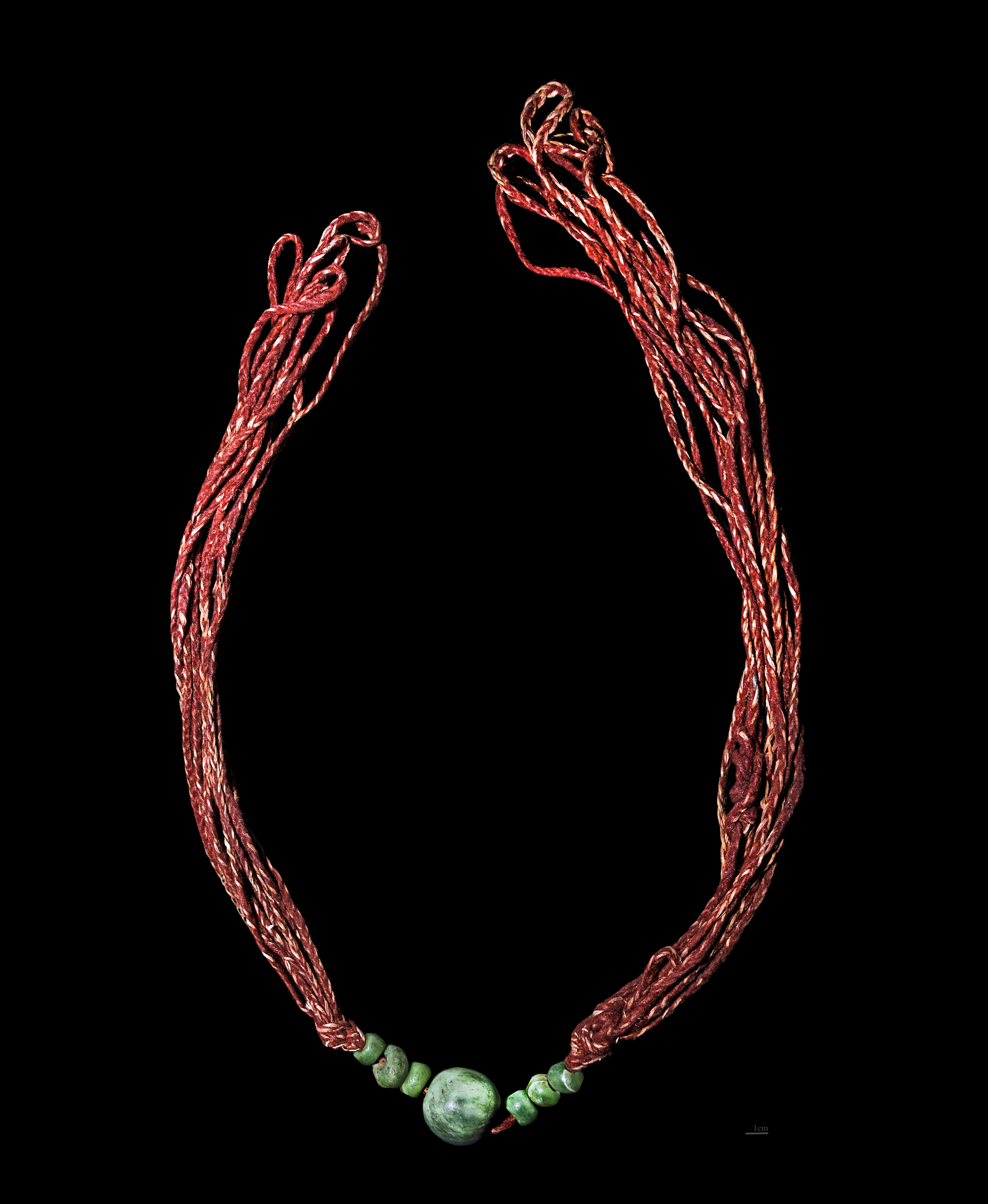 Necklace made up of seven jadeite beads on two skeins of flying fox (Pteropus vetulus) hair cords Population : Kanak people, New Caledonia Collector and collection: Théophile Savès Date of collection: the nineteenth century (4th Quarter) Materials: Jadeite and flying fox hair Size : 95x3 cm